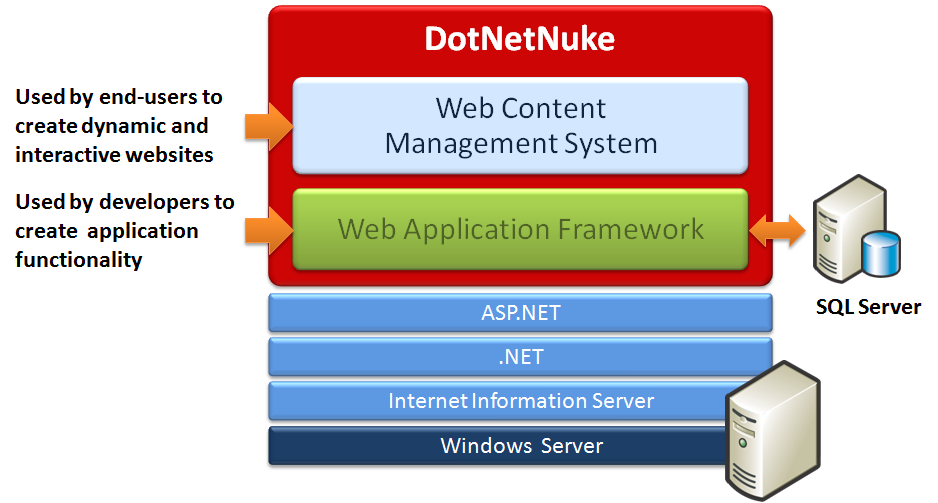 Summary - DotNetNuke version 5 architecture stack. Author - Created by Audiohifi, September 2009